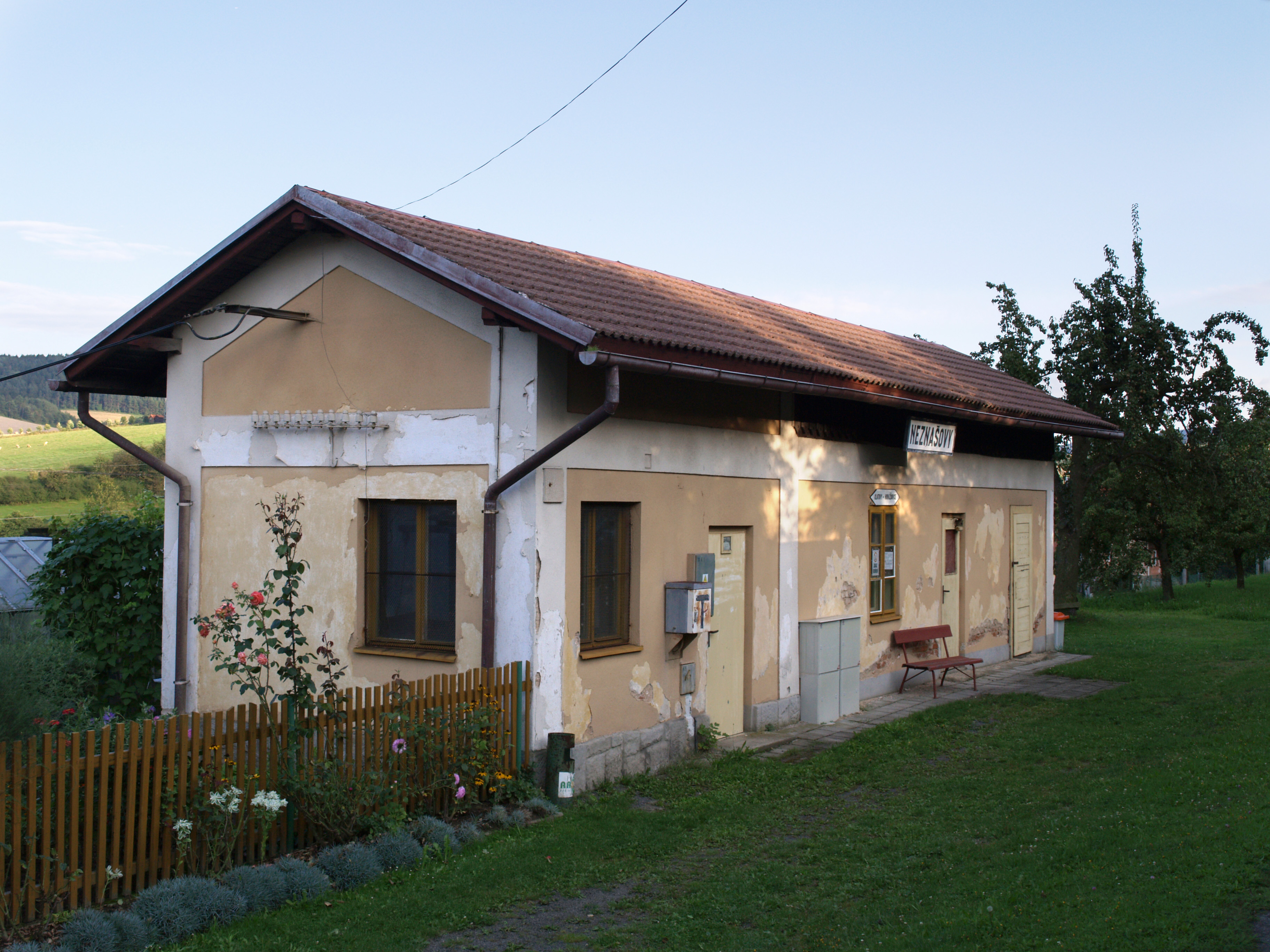 Neznašovy (part of Vrhaveč) – train station